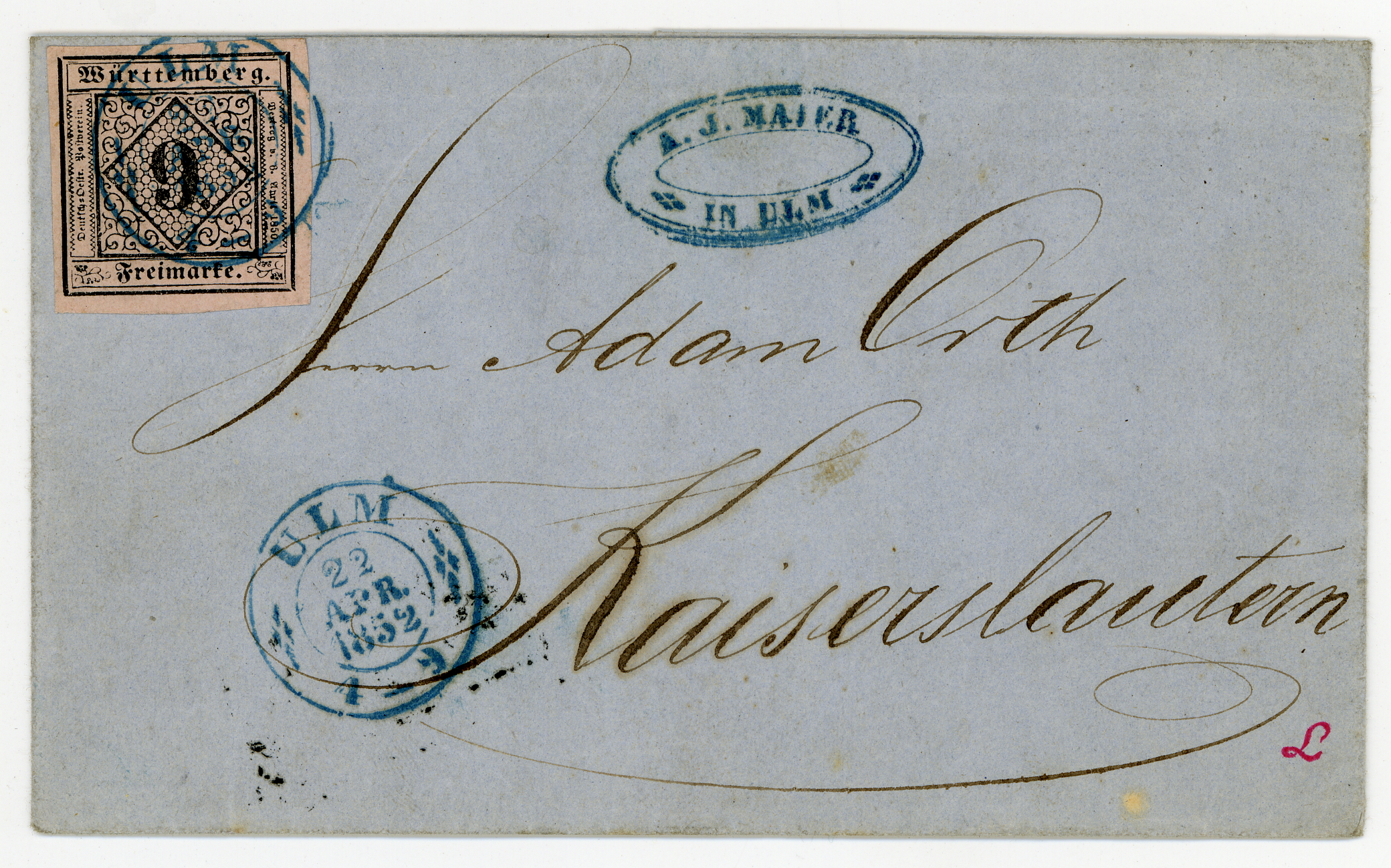 Letter from ULM to Kaiserslautern (Bavaria Palatinat), 9 kr Wurtemberg first issue, 3-rings blue cancelled in 1852.